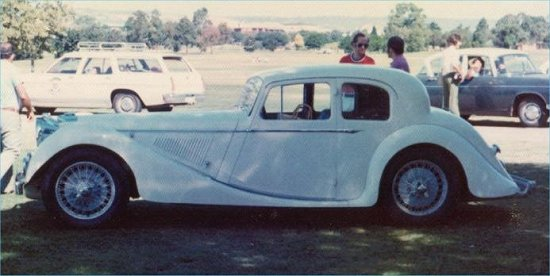 SS 100 saloon Photo taken Feb 1975 by Graham Young at Jaguar club meet Bonython Park, Adelaide (del) (cur) 12:00, 7 March 2005 . . Solander (Talk) . . 550x276 (37186 bytes)